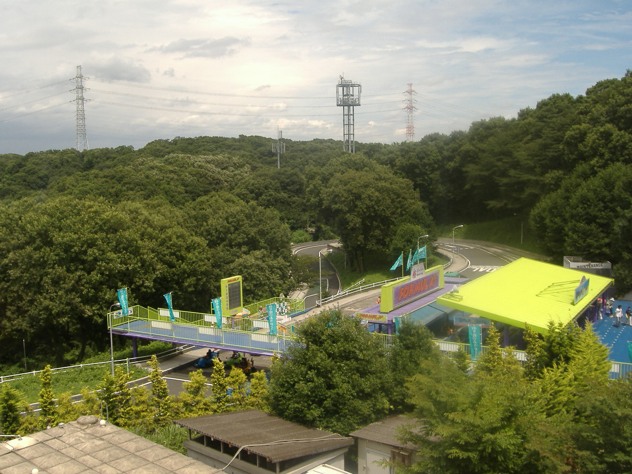 Tama tech-attraction,"Formura+"